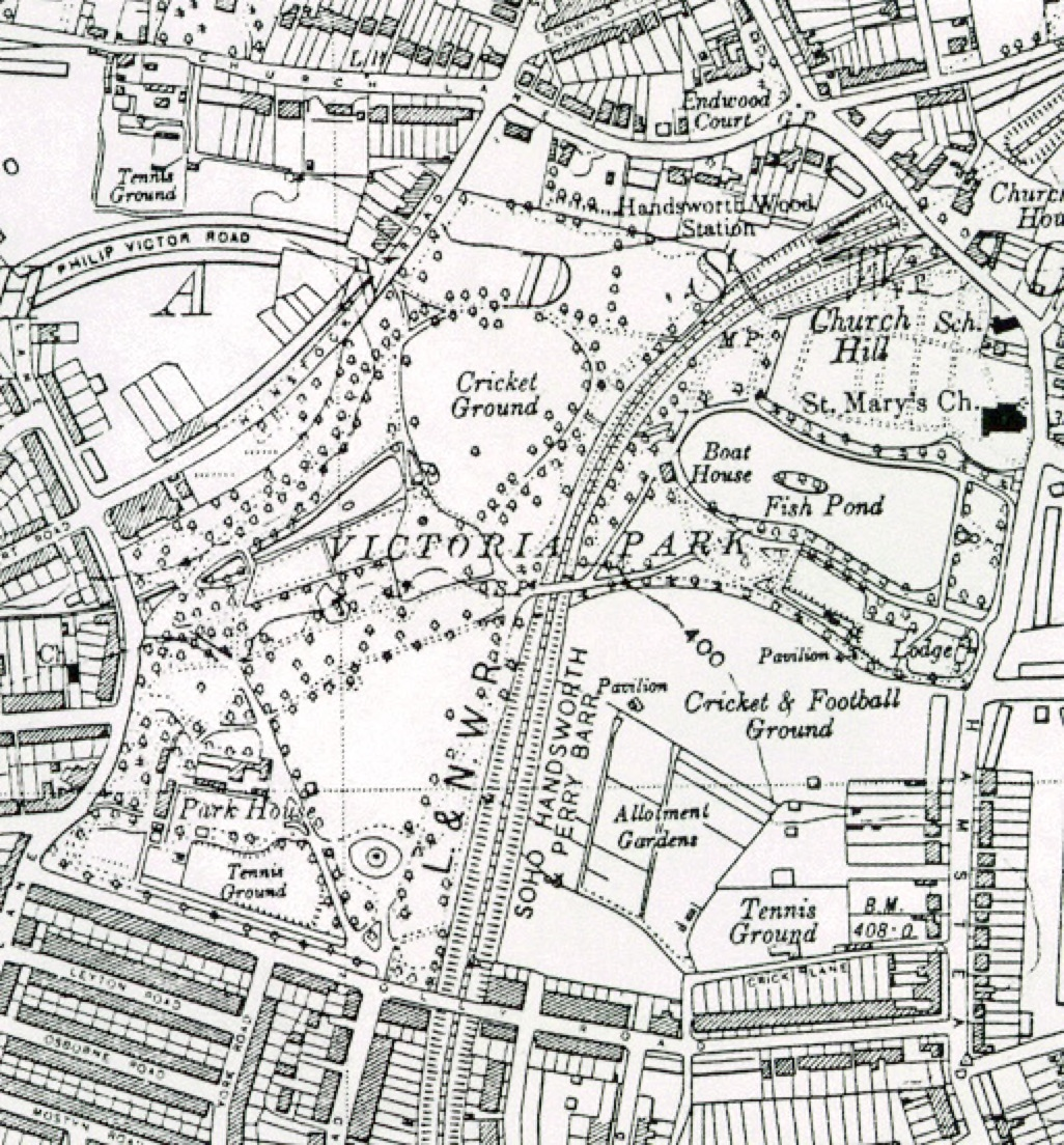 1904 25" Ordnance Survey map extract: Handsworth Victoria Park in Birmingham